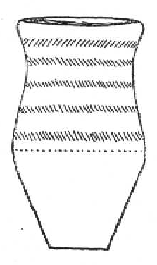 Single Grave Culture Beaker from the megalithic tomb Dumsevitz 2, Rügen